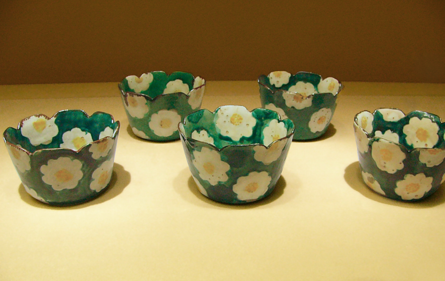 Five small bowls, by OGATA KENZAN(1663, Kyoto-1742, Edo), glazed pottery, 18th century, each Height about 8.0cm, The Museum of Oriental Ceramics Osaka, OSAKA, Japan